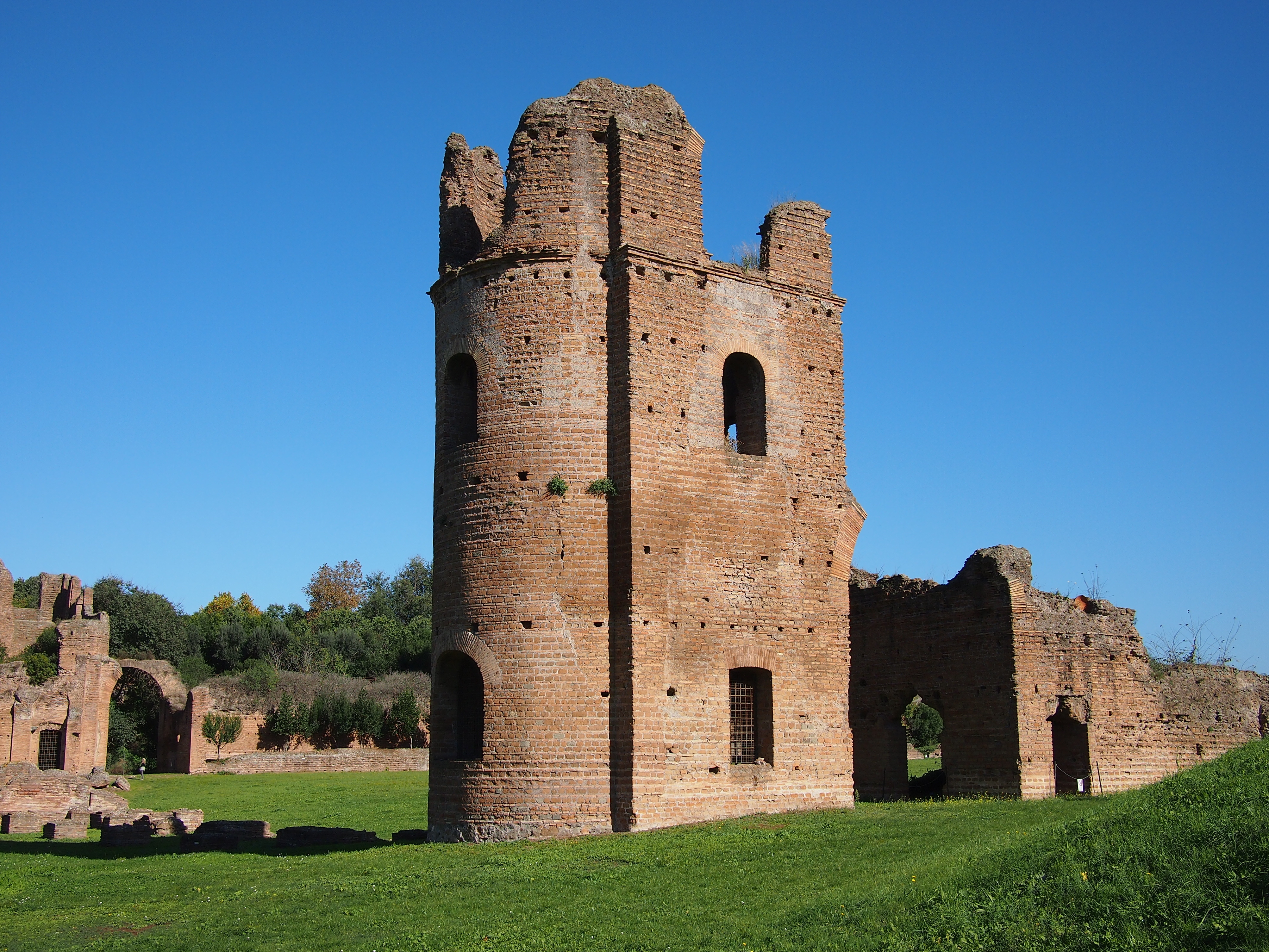 Part of the Circus of Maxentius